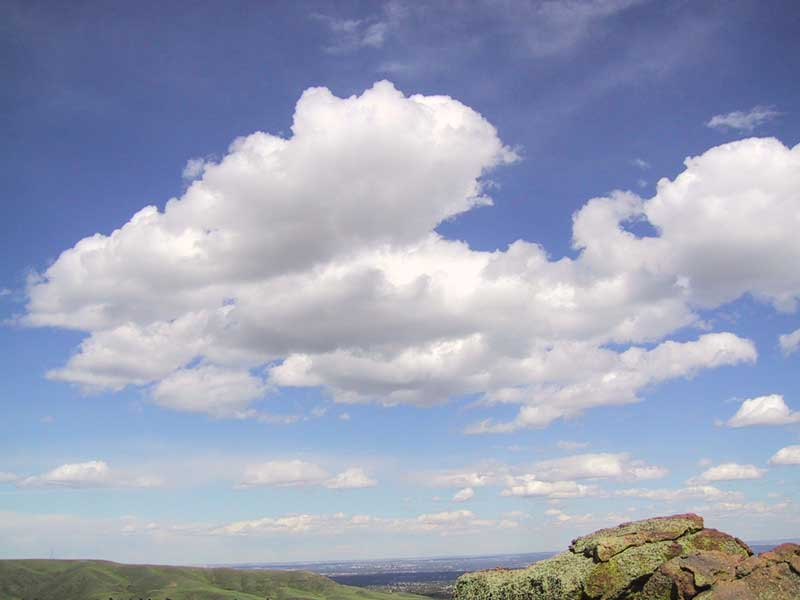 Cumulus clouds in fair weather.